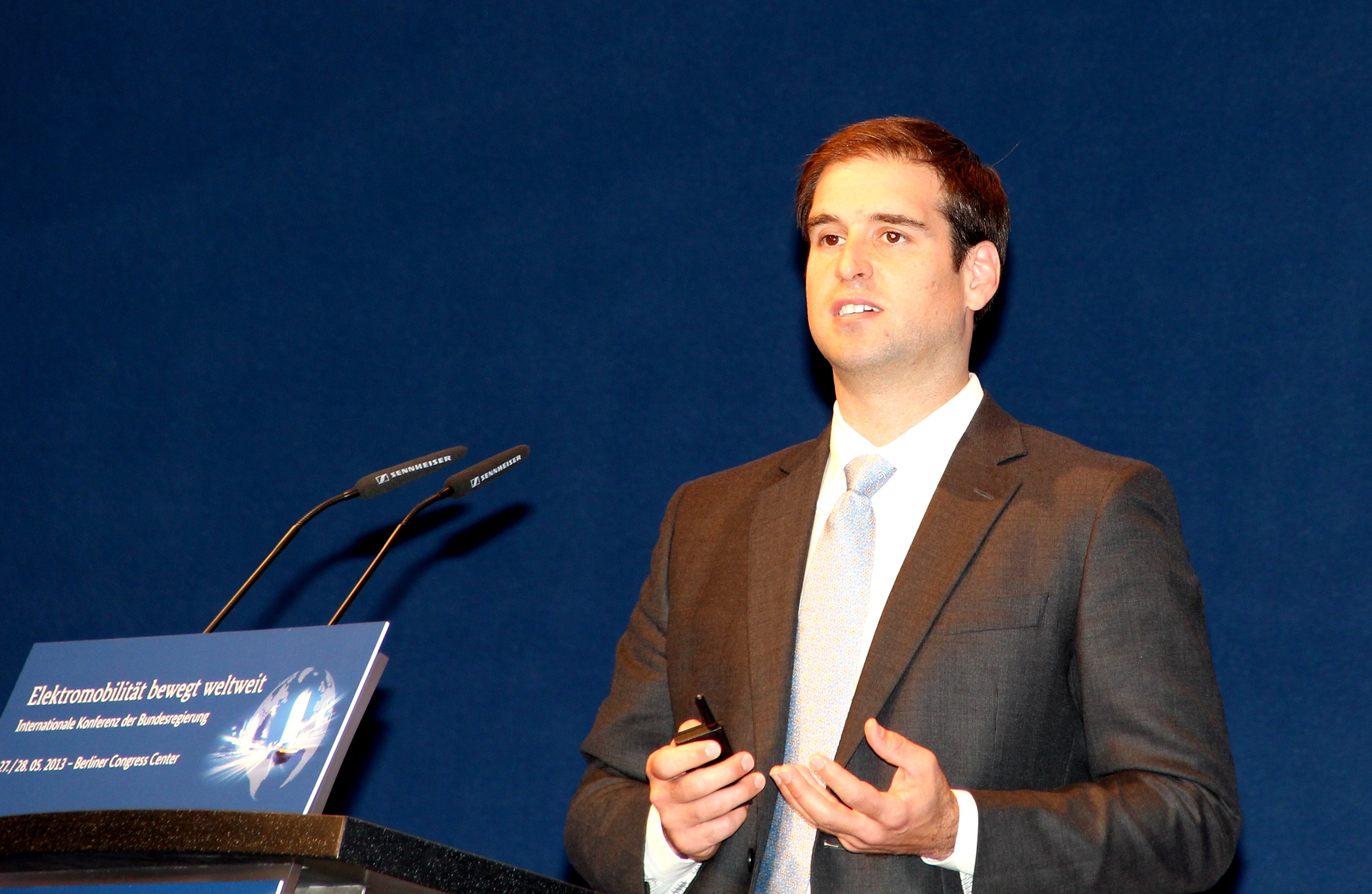 Jeffrey B. Straubel, member of the founding team and Chief Technical Officer of Tesla Motors